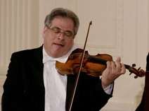 Itzhak Perlman playing at the white house on the occasion of a state visit be QE II